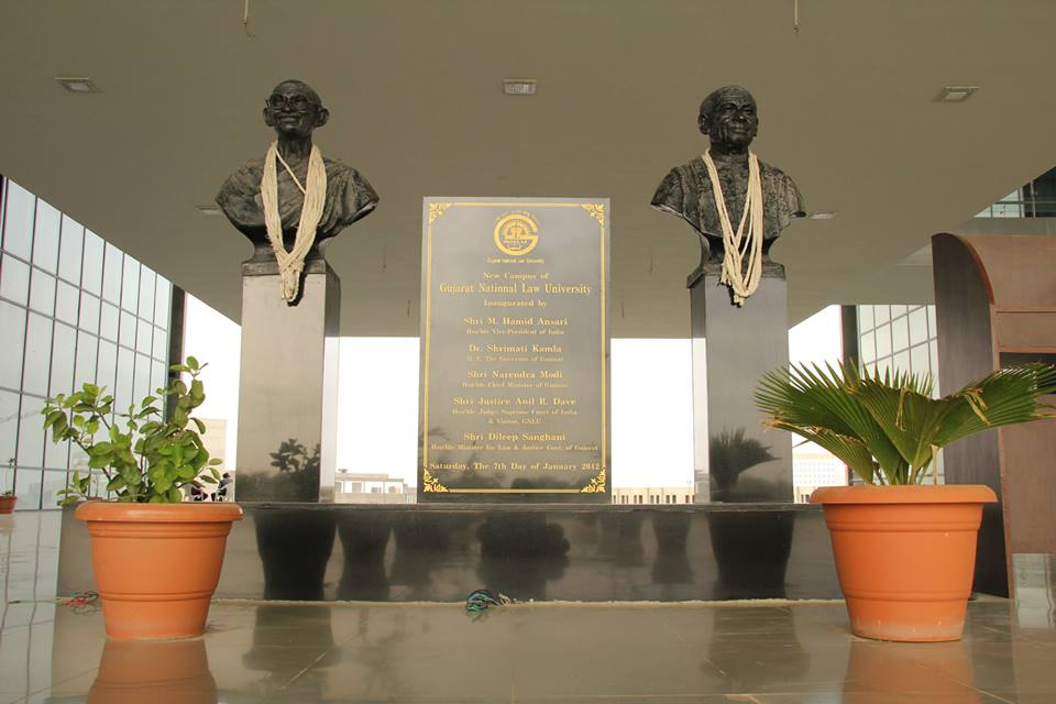 Inauguration stone